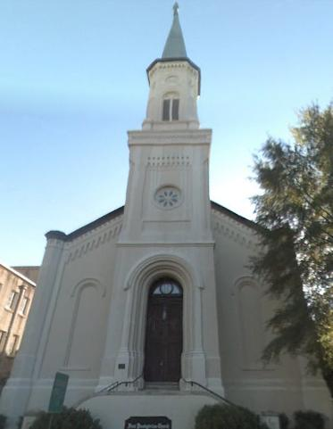 The First Presbyterian Church in Macon, Georgia. It is the 2nd- tallest church in Macon, and the 6th- tallest building in Macon.